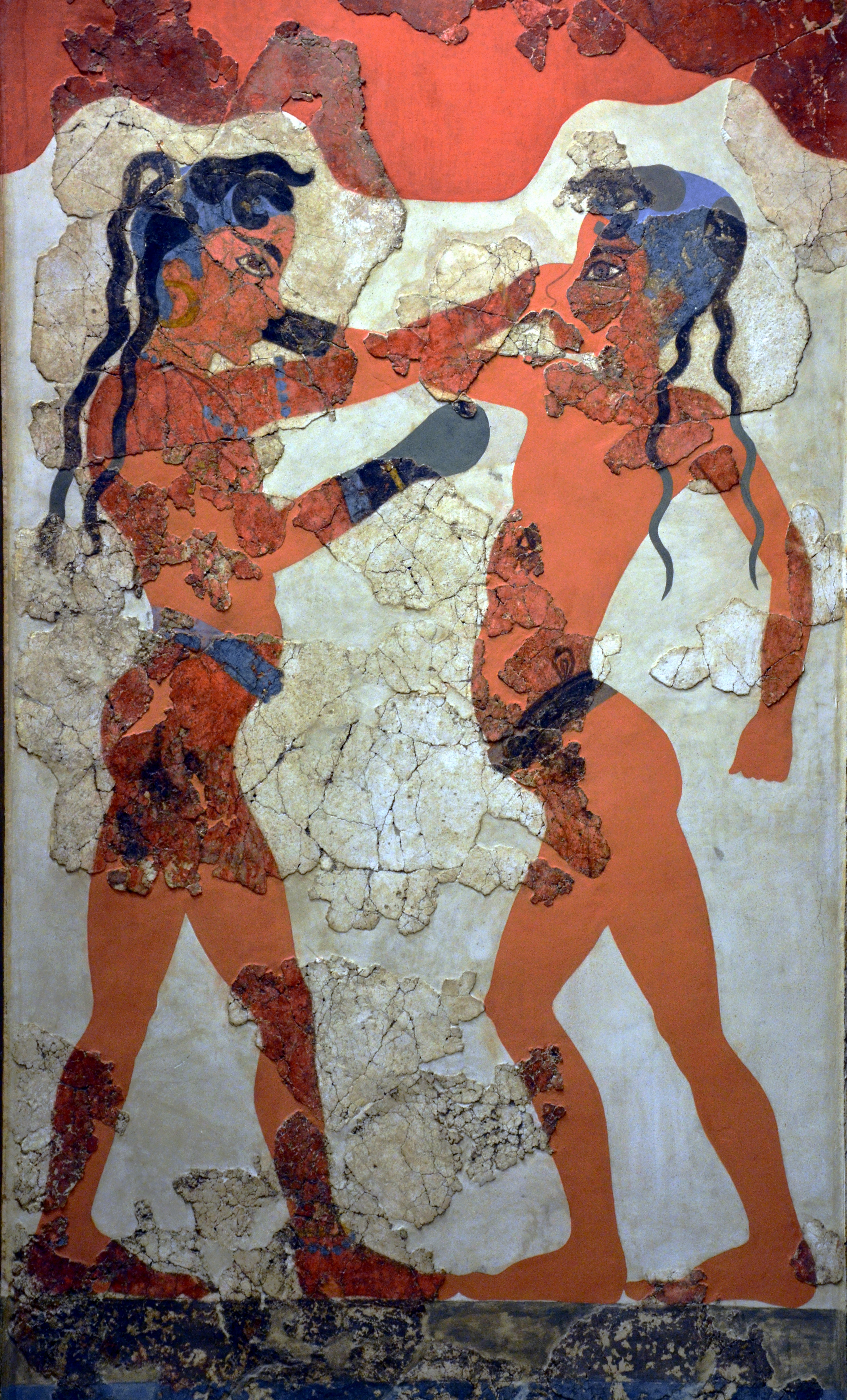 The boxing boys fresco is one of many well preserved frescoes from the island of Thera (Santorini). Thera was destroyed by a violent volcanic eruption, probably in the 16th century BCE, preserving much of the art there. This was discovered by Greek archaeologist Spiros Marinatos at the Akrotire site on Thera. The boxing boys were found in House B. The crossing of the blows helps make the action more natural and realistic. The boy on the right has landed a hook, but has exposed himself to the right jab of is opponent.